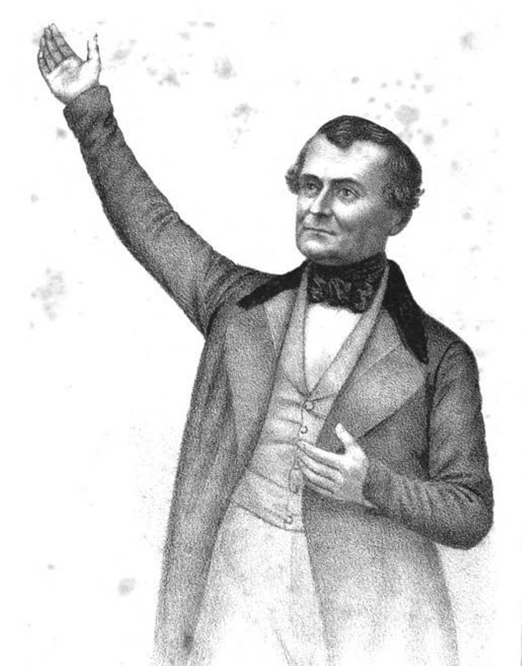 Heinrich Ludwig Tschech. Frontispiece of Eliasbeth Tschech: "Vom Leben und Tod des Bürgermeisters Tschech." Bern 1849. Based on a daguerrotype of Tschech, which he had made on the day before the attempted assassination of Frederick William IV of Prussia.